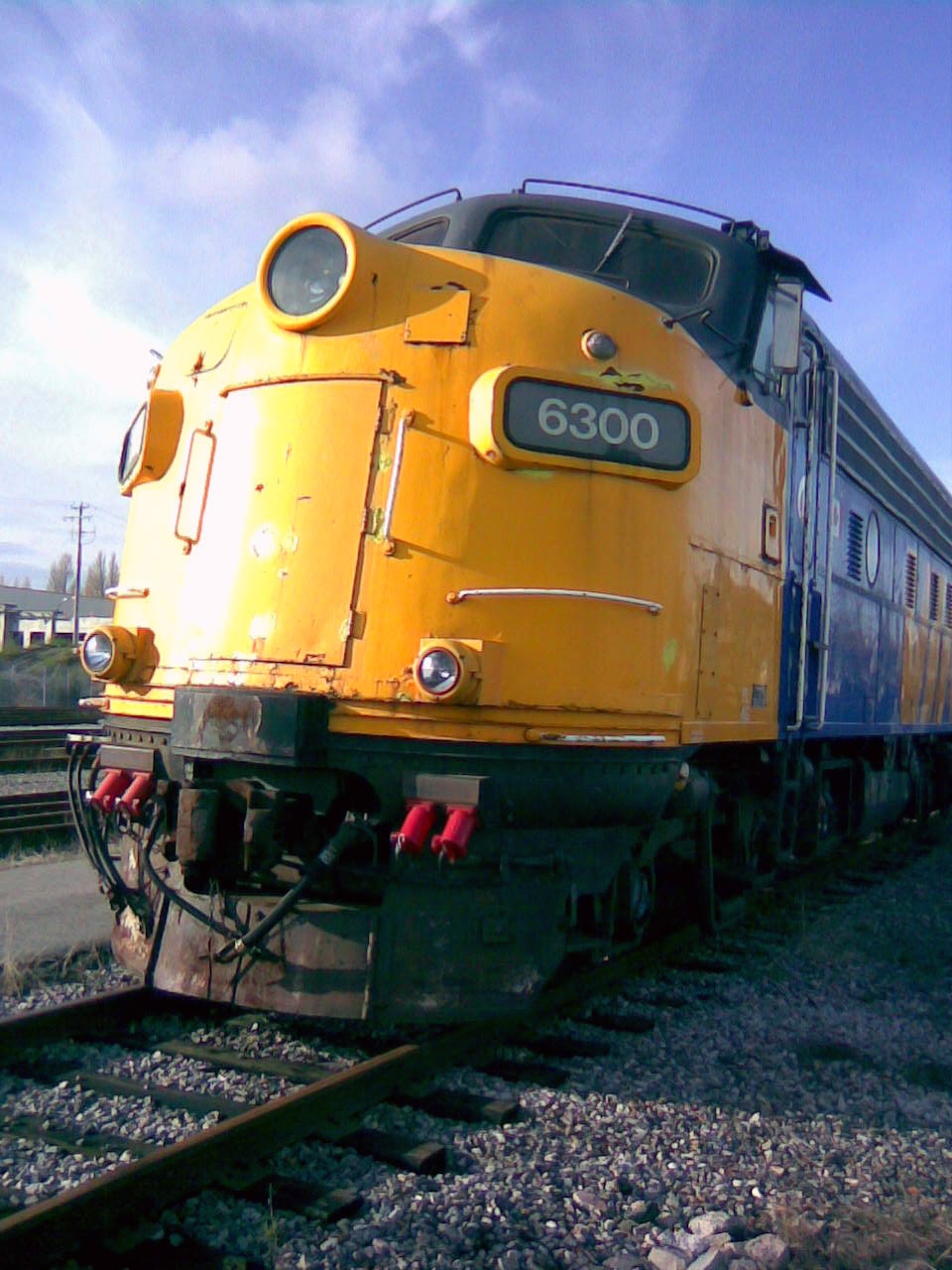 Via Rail General Motors Diesel locomotive FP9ARM number 6300.